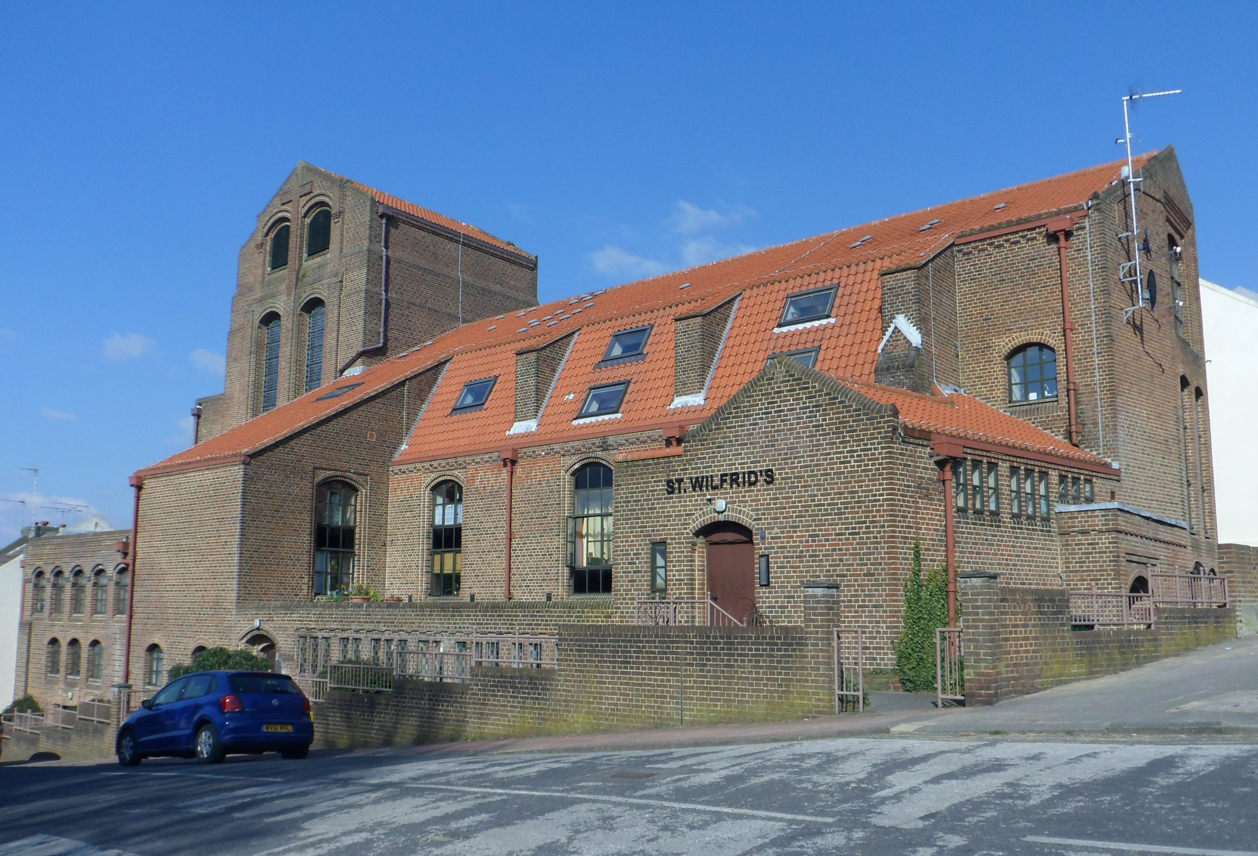 The former St Wilfrid's Church, Whippingham Road/Elm Grove junction, Brighton, City of Brighton and Hove, England. Built in 1932–34 to the design of Harry Stuart Goodhart-Rendel; listed at Grade II, but now converted into sheltered housing with the name St Wilfrid's Court.